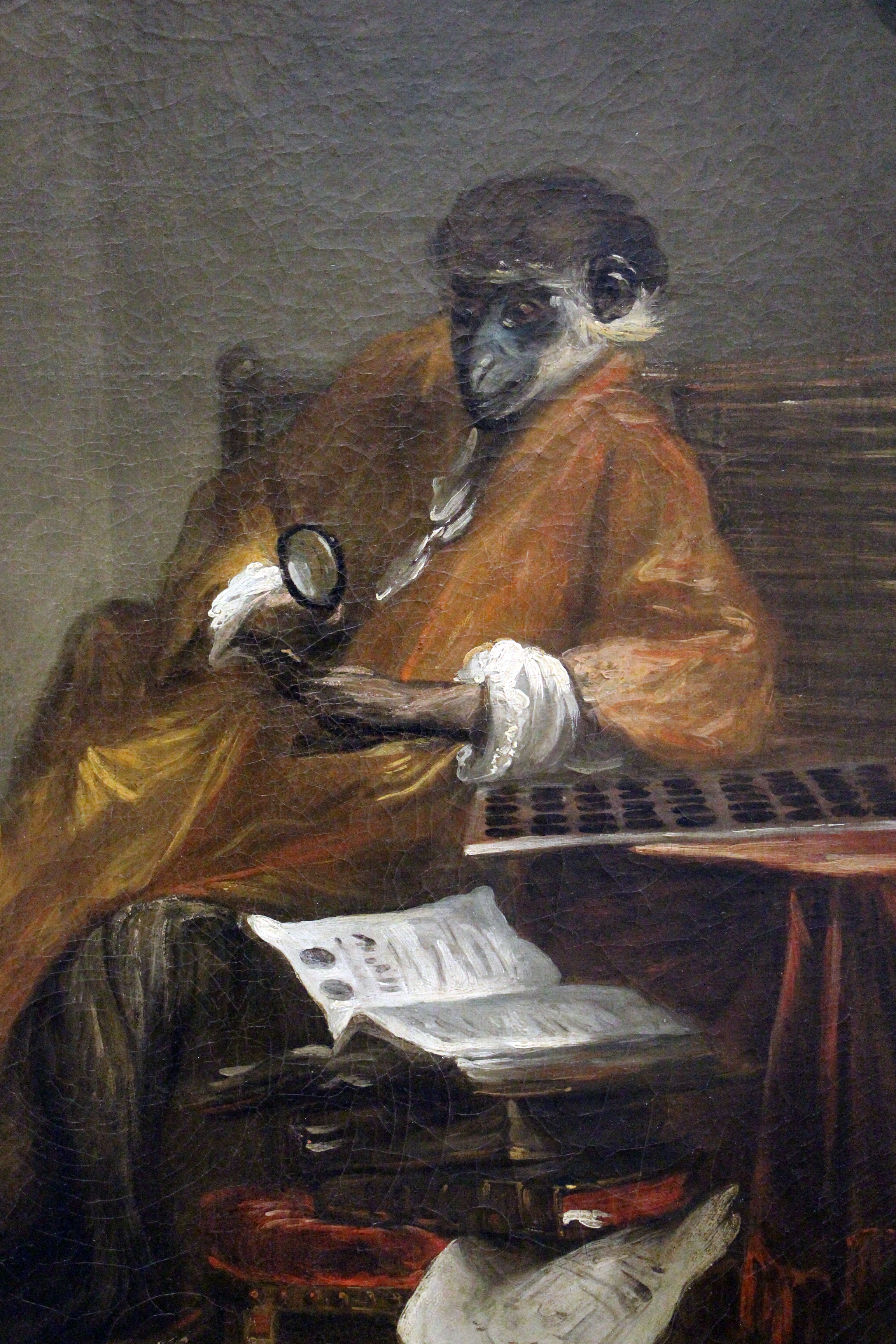 Paintings by Chardin in the Louvre